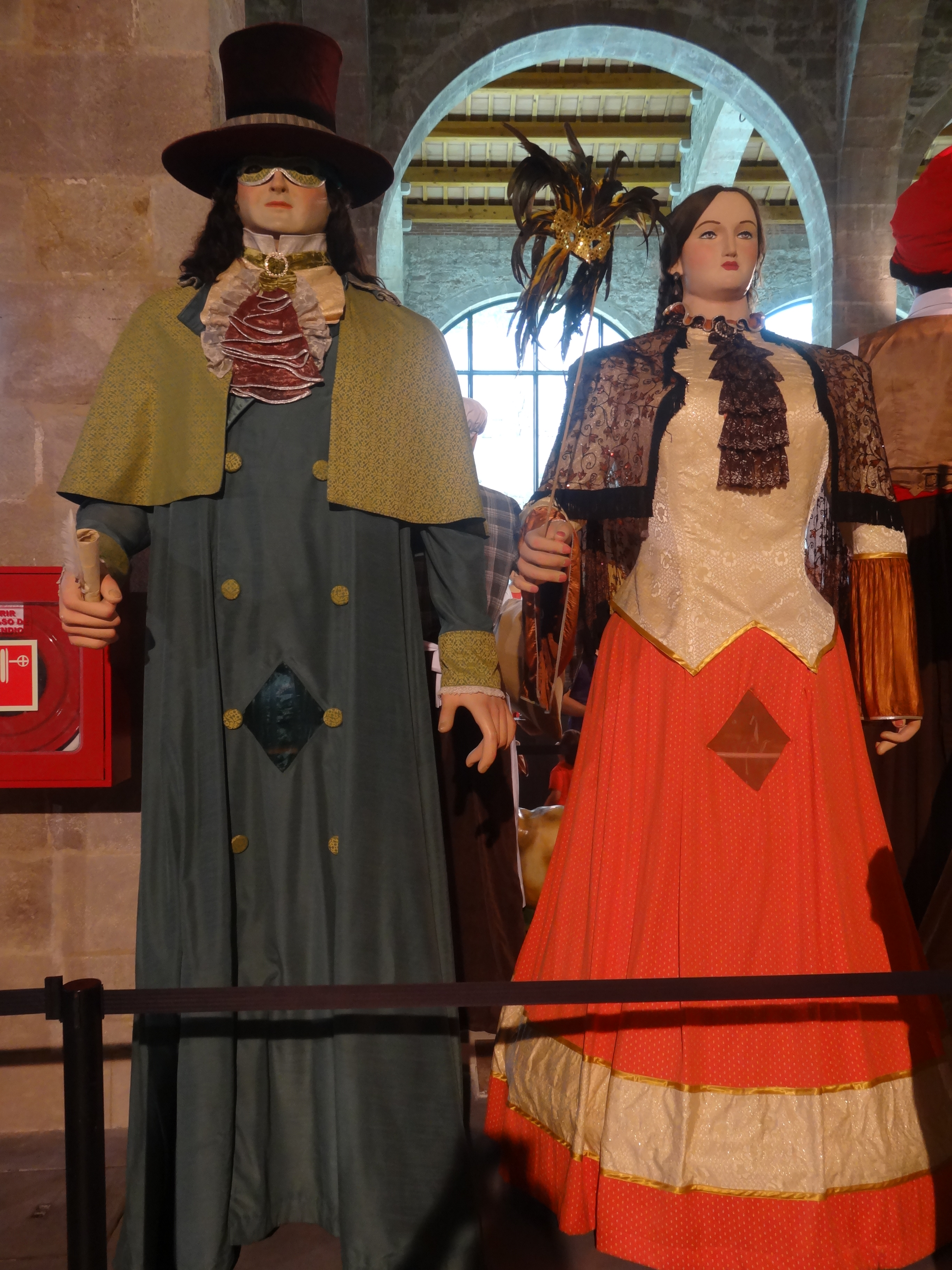 Exhibition of Giants at the Museu Marítim, Barcelona, 2013.